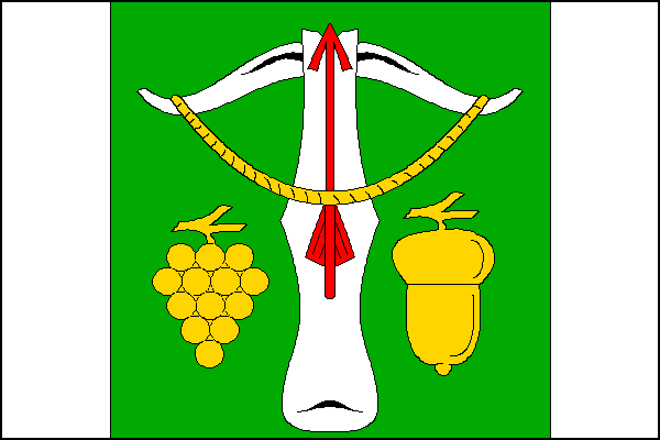 Municipal flag of Lovčice village, Hodonín District, Czech Republic.